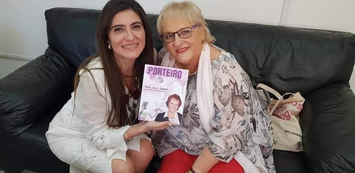 Claudia Martínez, Minister of Women in Córdoba, Argentina with María José Porteiro´s book: I came, saw and spoke, women in front of public discourse